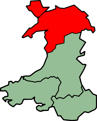 Self-made, based on Image:WalesNumbered.png.